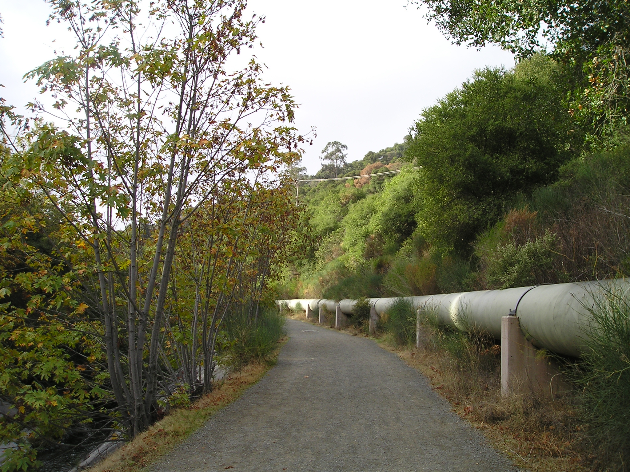 Los Gatos Creek Trail with water pipe from Lexington Reservoir I think